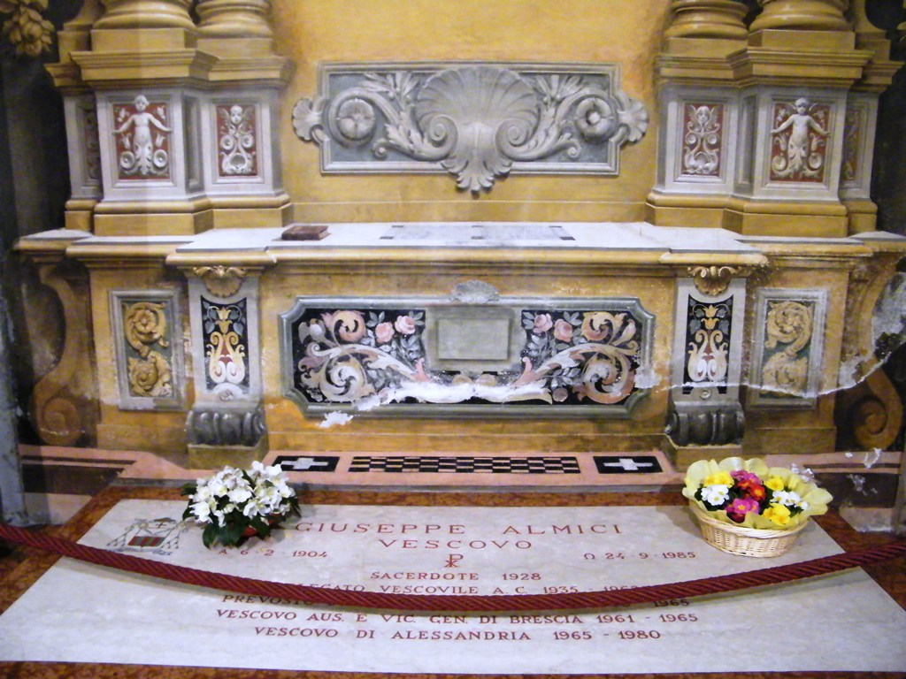 Giuseppe Almici. Zone